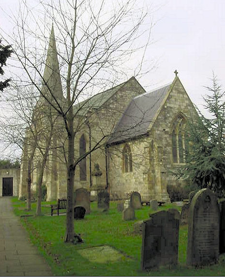 St Stephen's parish church, York Road, Acomb, North Yorkshire, seen from the southeast